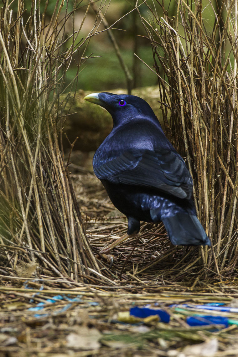 Satin Bowrebird at bower - Lamington NP - Queensland_S4E6766